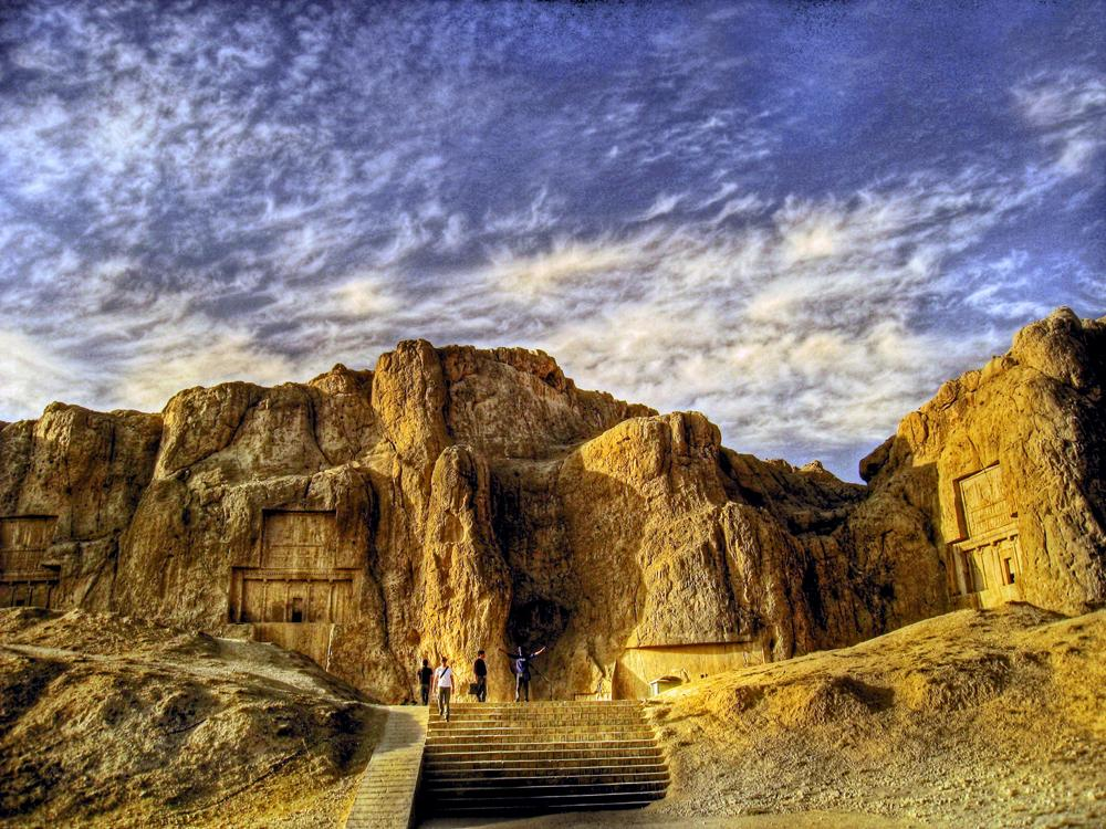 Naghsh-e Rostam, Iran.